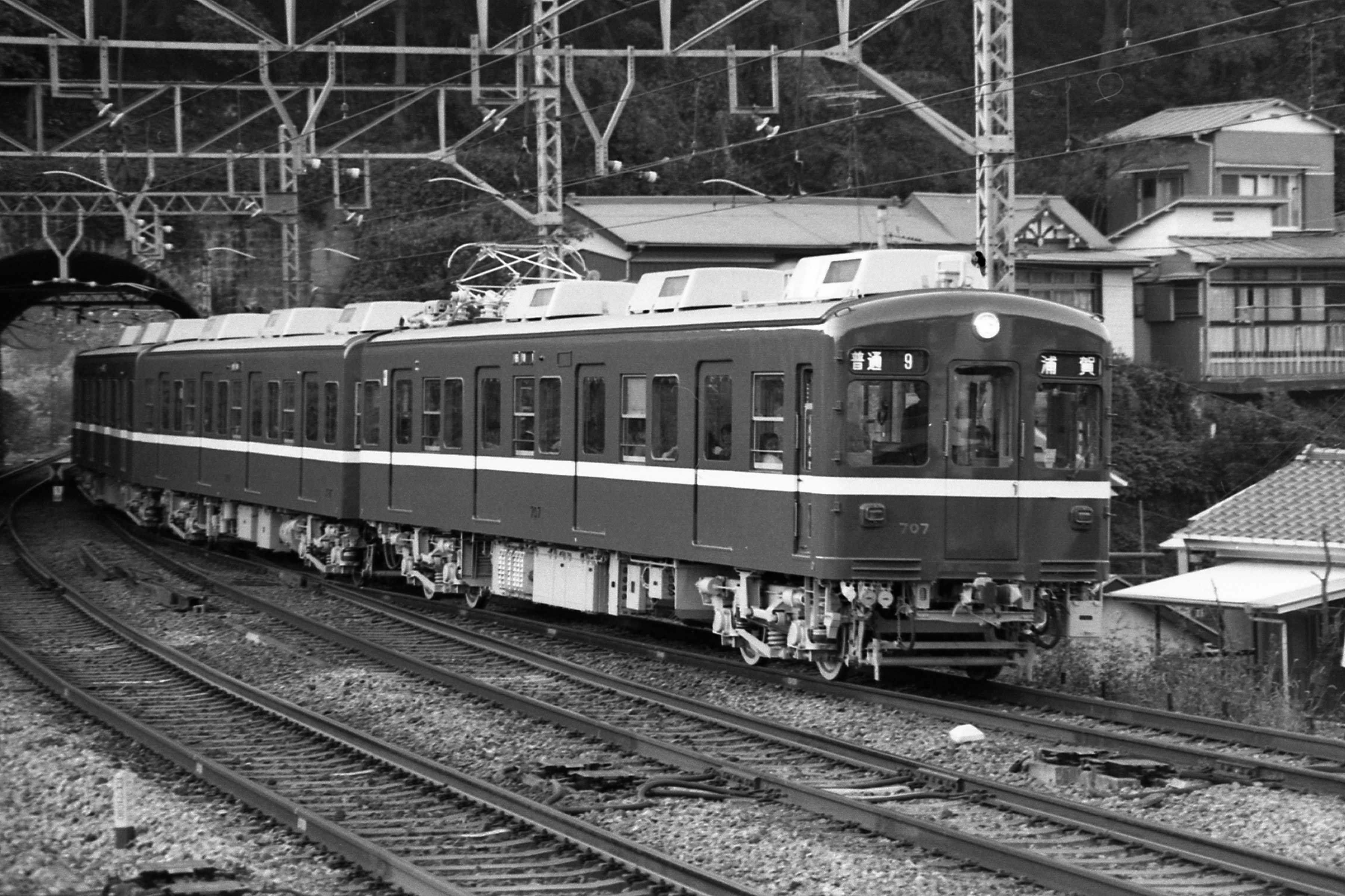 Keikyu 707 just after its refurbishment. Taken at Hemi station